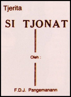 Cover of F. D. J. Pangemanann's novel Tjerita Si Tjonat, published in 1900 by Tjoe Toei Yang.